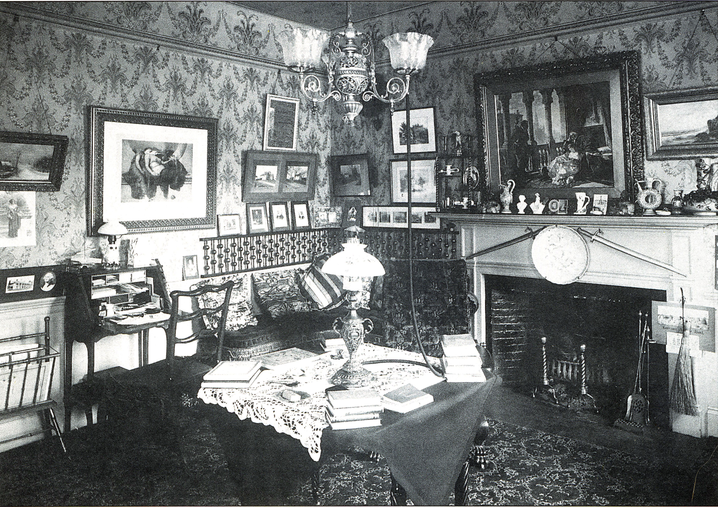 Interior of the Nevins Estate at the corner of Hampshire St and Broadway in Methuen Massachusetts Circa 1909. Built by David Nevins, Sr. and his wife Eliza, left to his oldest son Henry Coffin Nevins and wife Julia, and then passed to widow of his second son David Nevins, Jr., Harriet Nevins. The estate was razed to make room for an ugly municipal building.